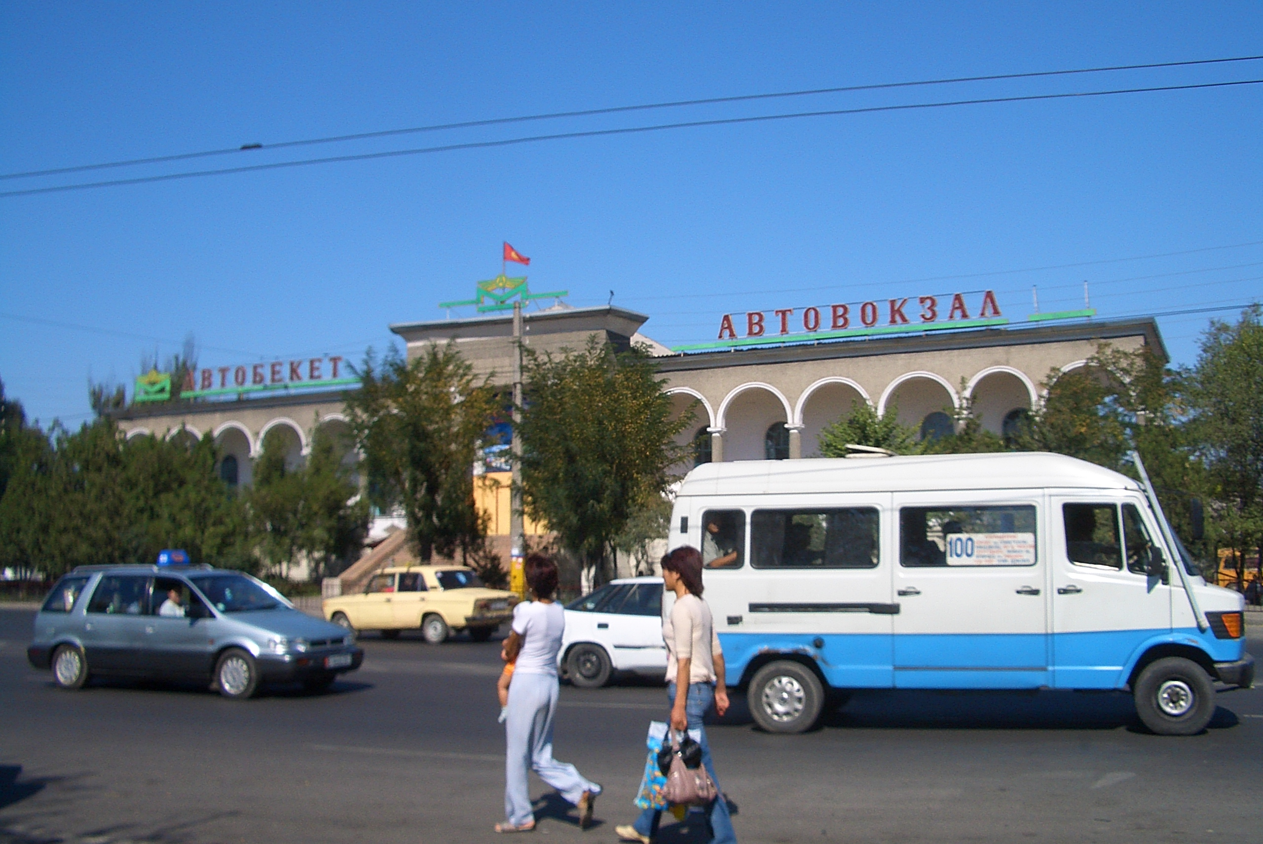 The Eastern Bus Station in Bishkek. This is the city's old bus terminal; the station building is no longer used for transportation purposes, but minivans serving eastern suburbs leave from a plaza outside of it. Note a Mercedes minivan, the mainstay of Bishkek public transit, passing in the street in front of the building. Кыргызча: Чыгыш Автовокзалы, Бишкек